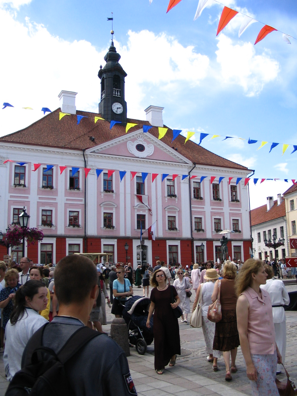 Tartu Hanseatic Days 2005, Town Hall square